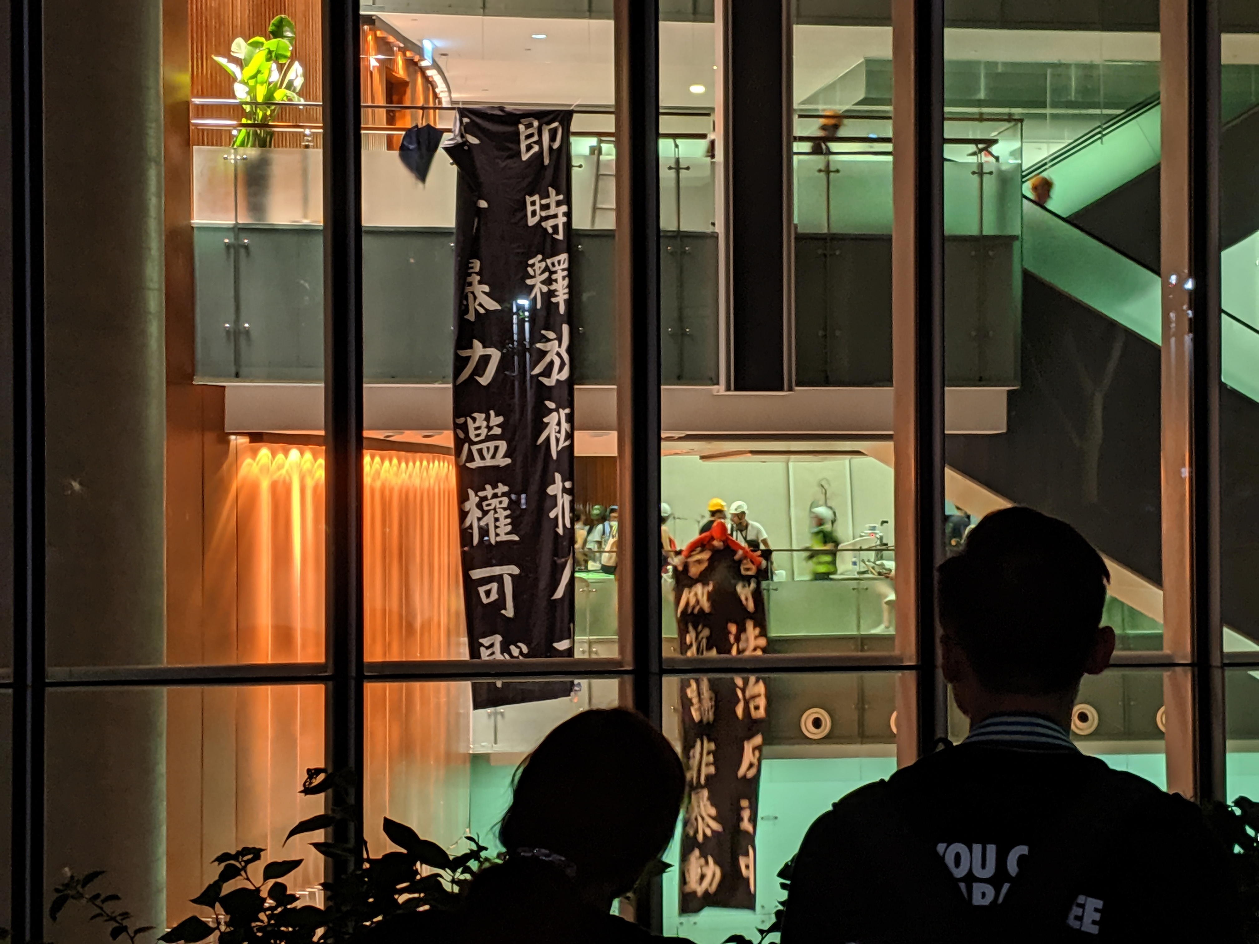 2019 Hong Kong anti-extradition law protest on 1 July 2019, captured by Studio Incendo from Flickr.